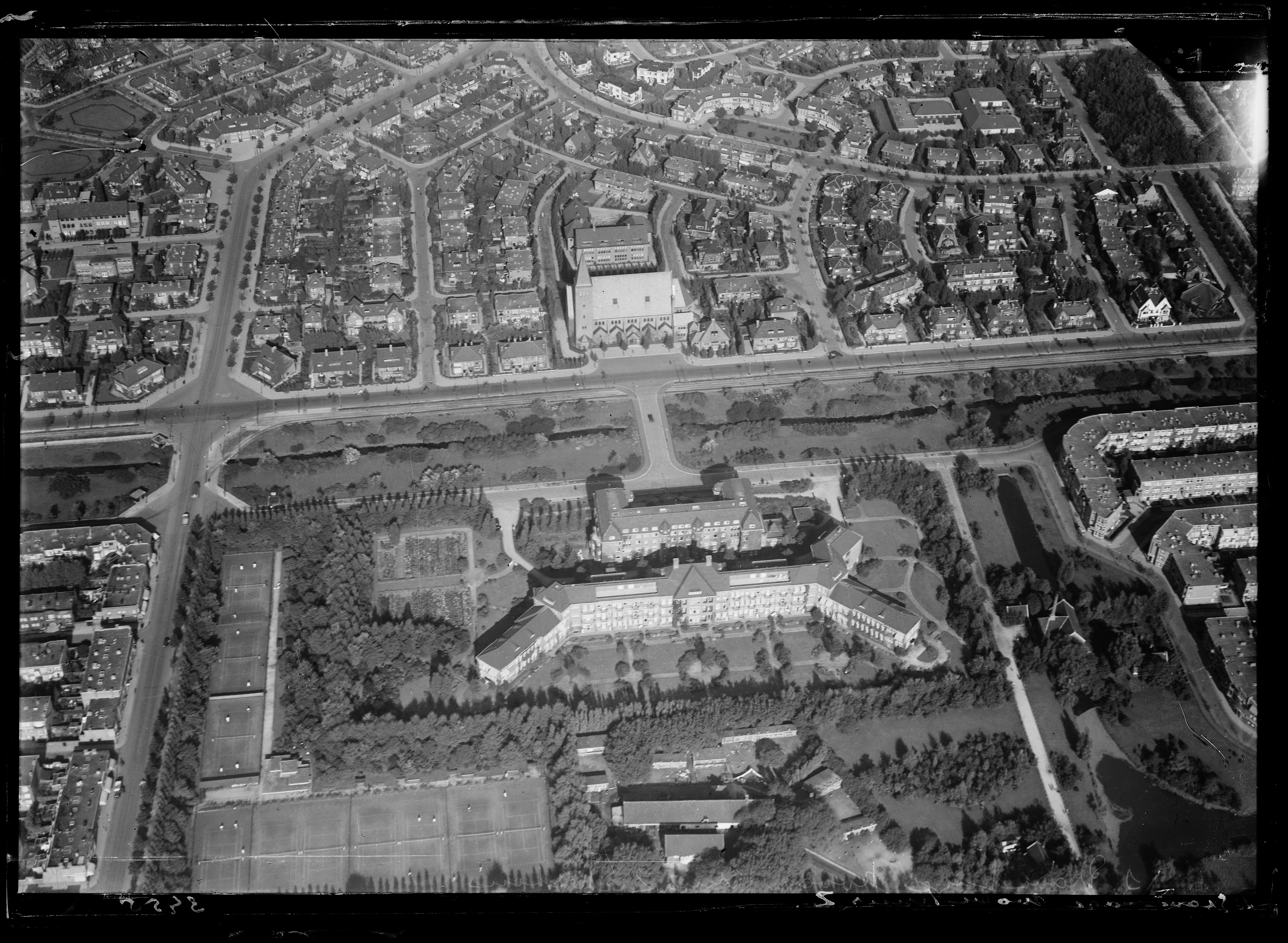 Aerial photograph of The Hague, The Netherlands